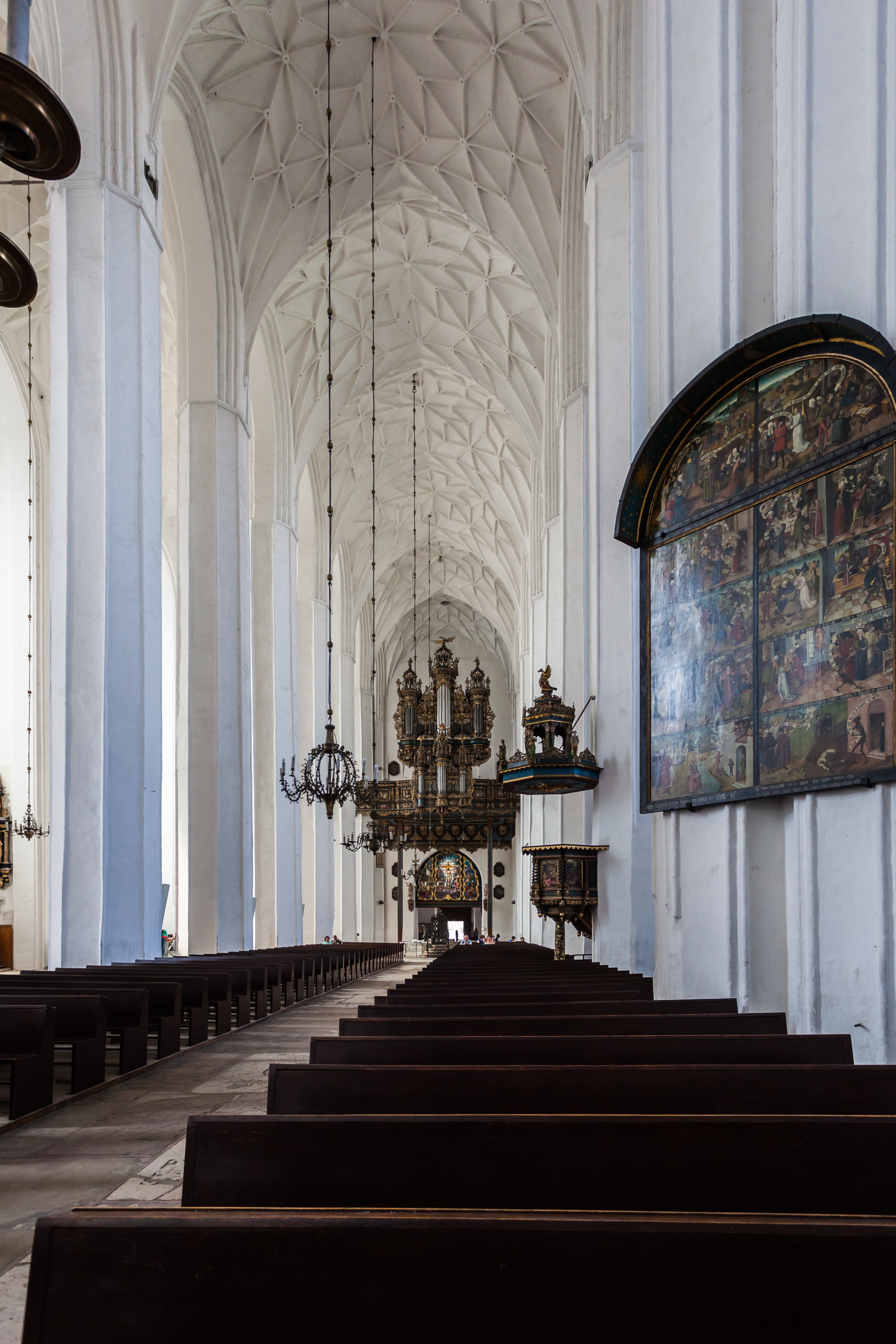 Church of St Mary, Gdansk, Poland